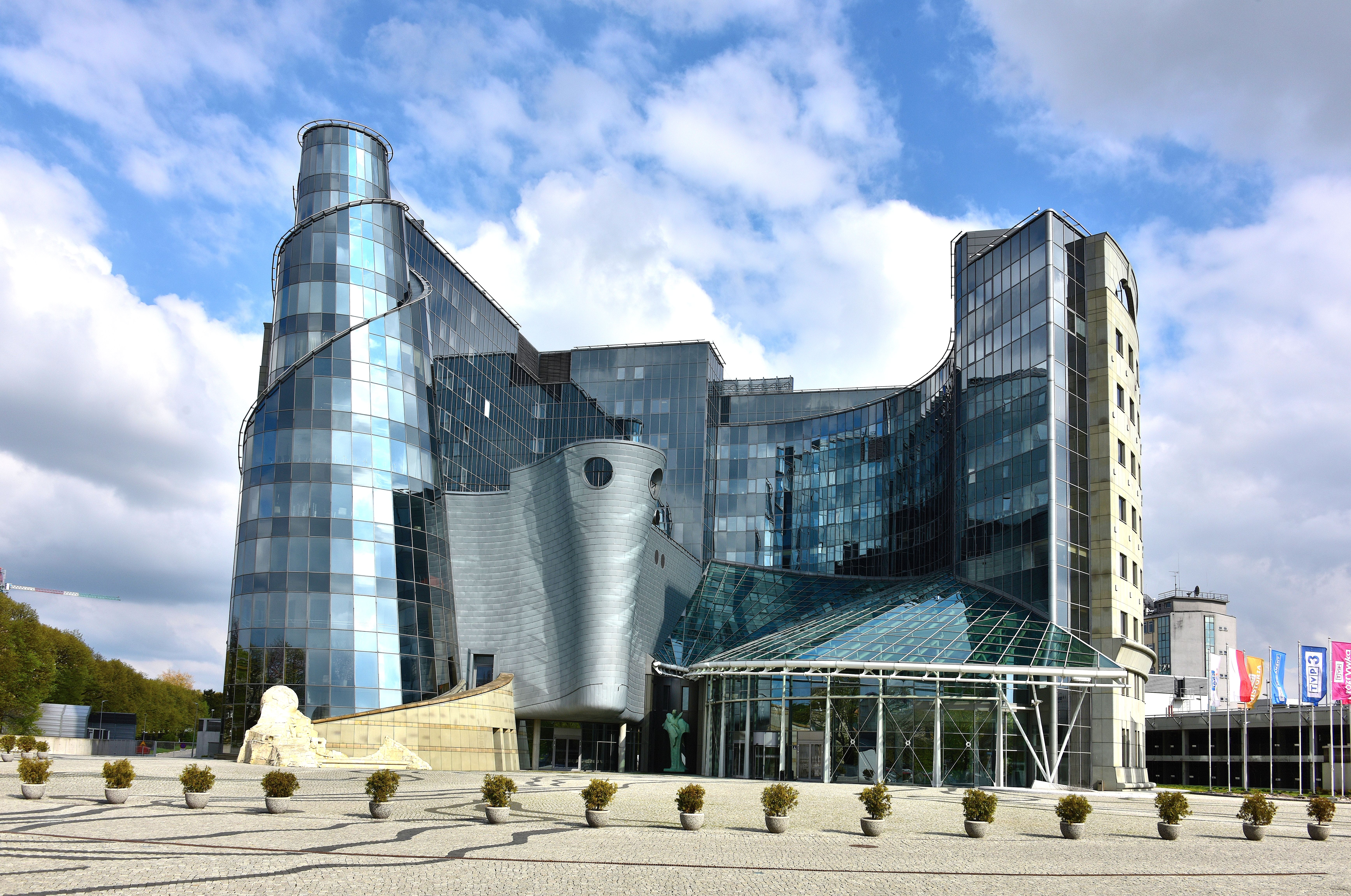 Telewizja Polska "B" builiding at 17 Jan Paweł Woronicz Street, view from Samochodowa Street.